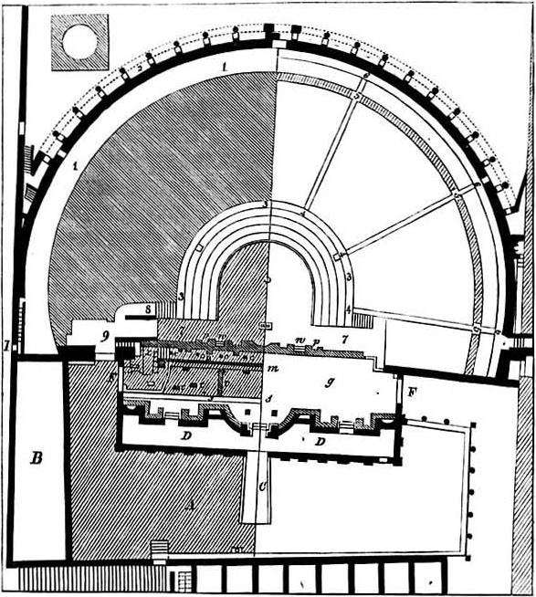 Theatre, Pompeii, plan.